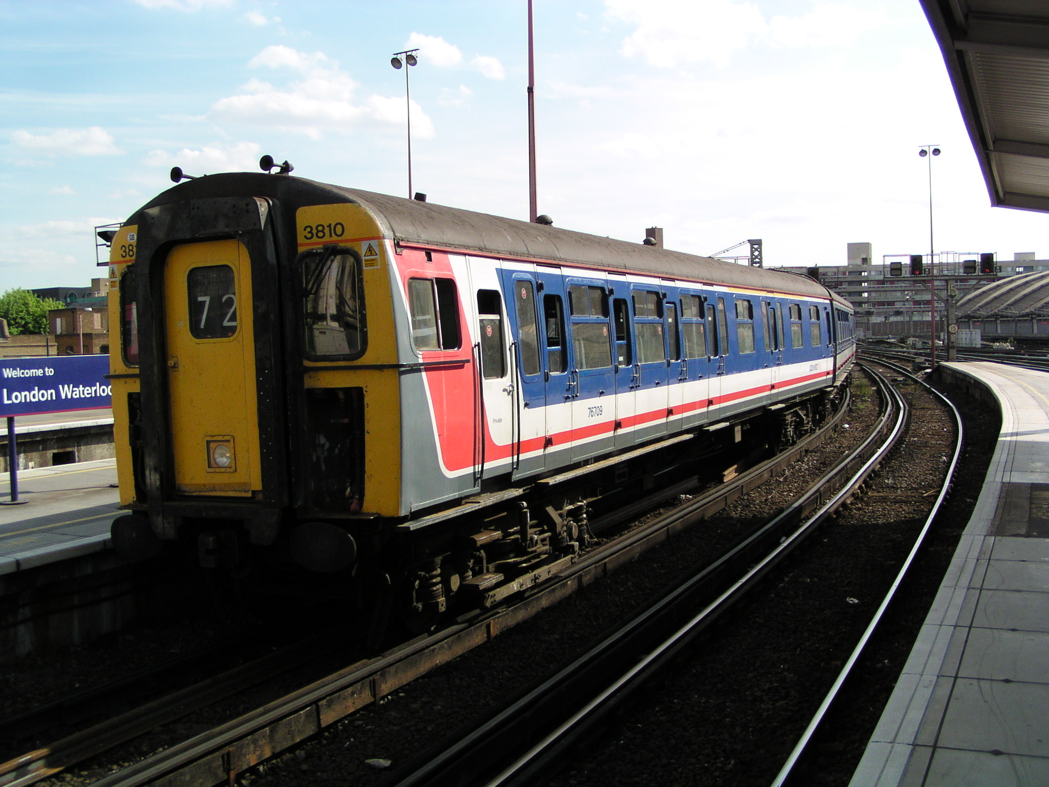 TBR Class 423/1, no. 3810 arriving at London Waterloo on 15th August 2003. This unit was one of the last to carry Network SouthEast livery. It was nick-named the "Great Escape" after it was exported to Germany for a while for testing to assist Siemens in building new trains to replace the slam door trains operated on South West Trains express and outer suburban services. It was withdrawn from service by South West Trains in March 2005. There was an attempt to preserve this unit, but sadly that failed and the unit was scrapped.